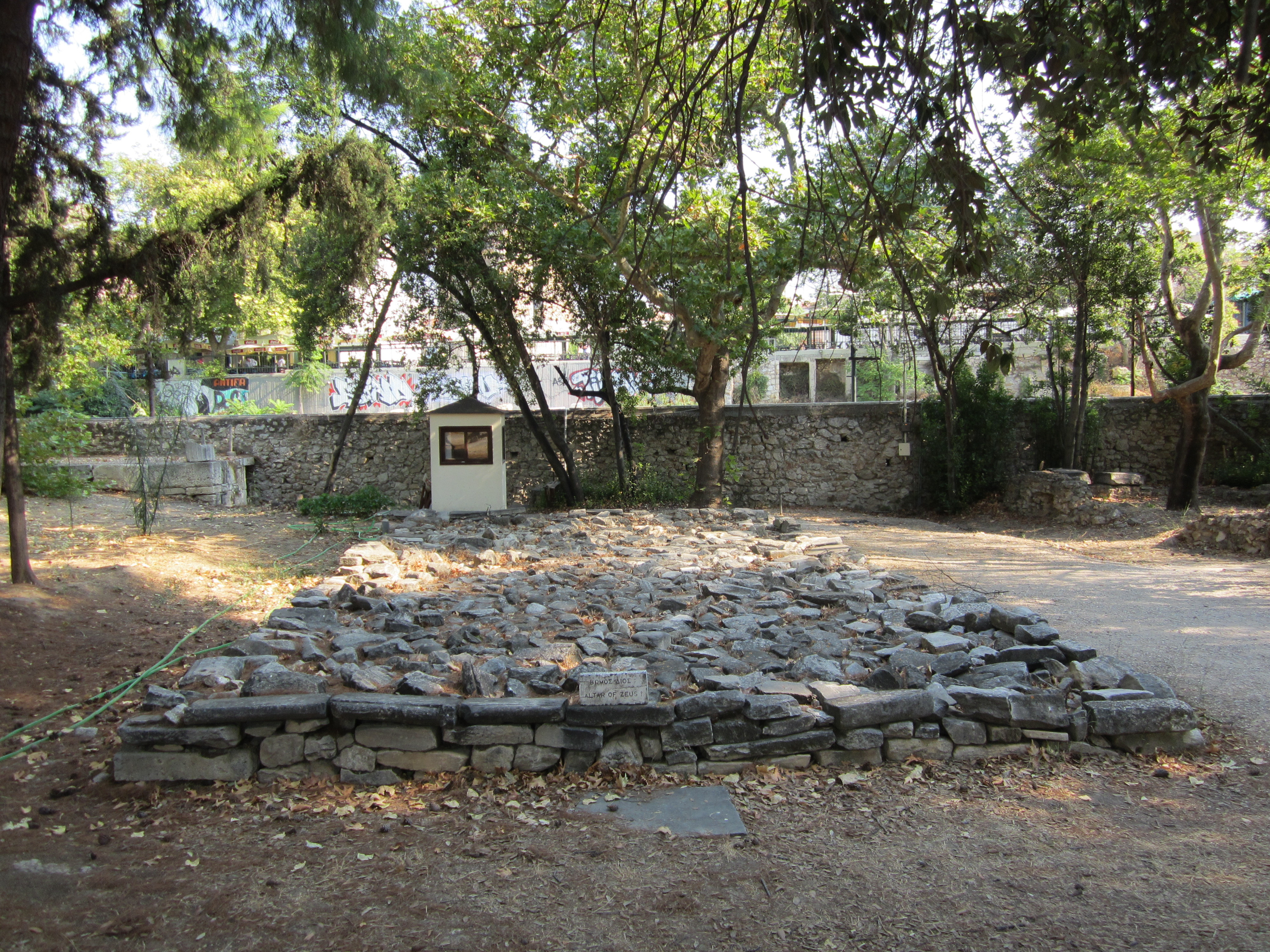 Altar of Zeus Eleutherios in front of the Stoa of Zeus. Ancient Agora of Athens, Greece.